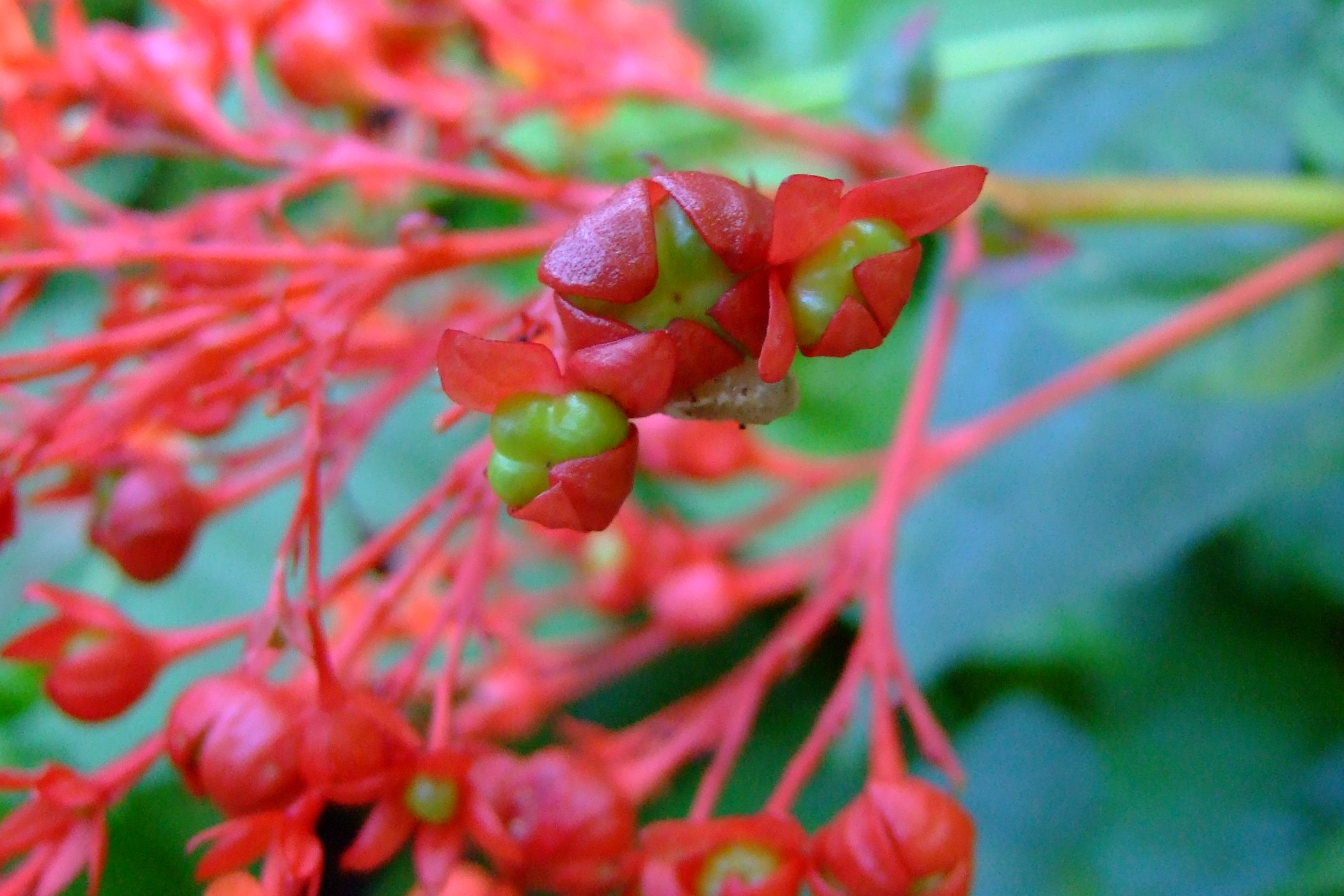 Clerodendrum kaempferi, photo in Taiwan. Clerodendrum kaempferi is a synonym of Clerodendrum japonicum. Reference Lêng-chûn-hoe, tī Tâi-oân hip--ê